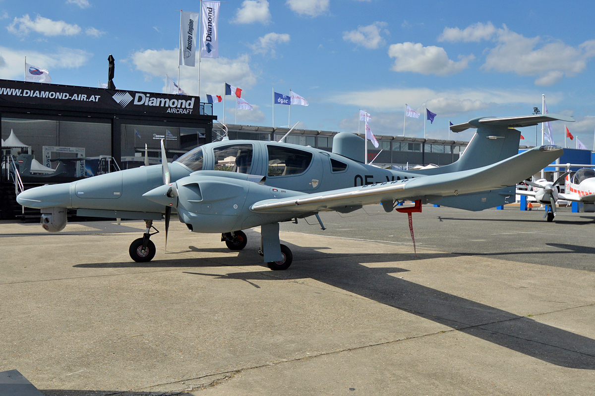 Diamond Aircraft Industries, OE-VAM, Diamond DA62